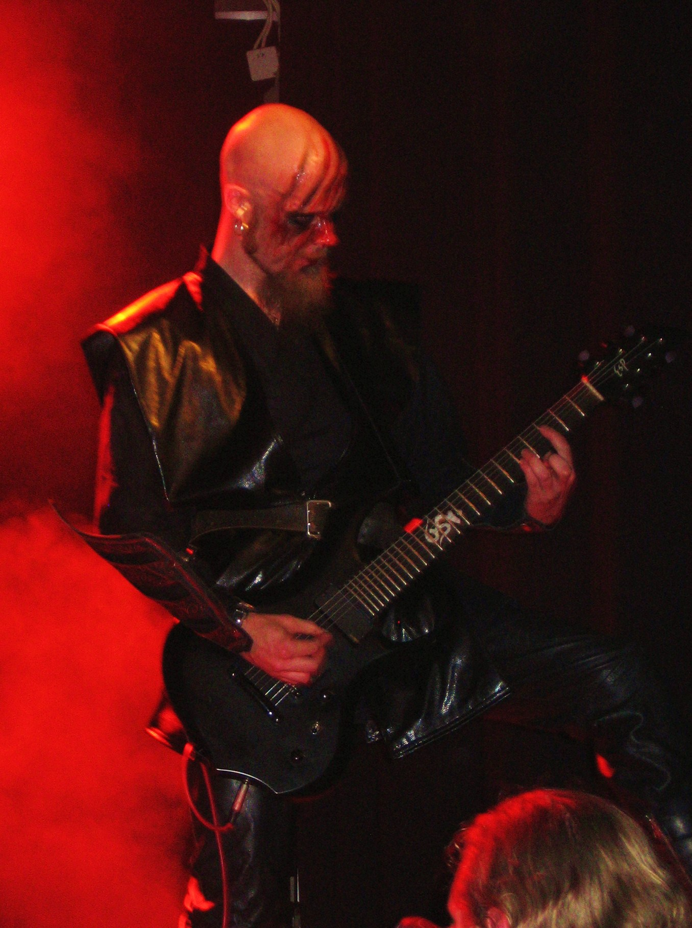 Jyri Vahvanen of Battlelore at Nosturi, Helsinki